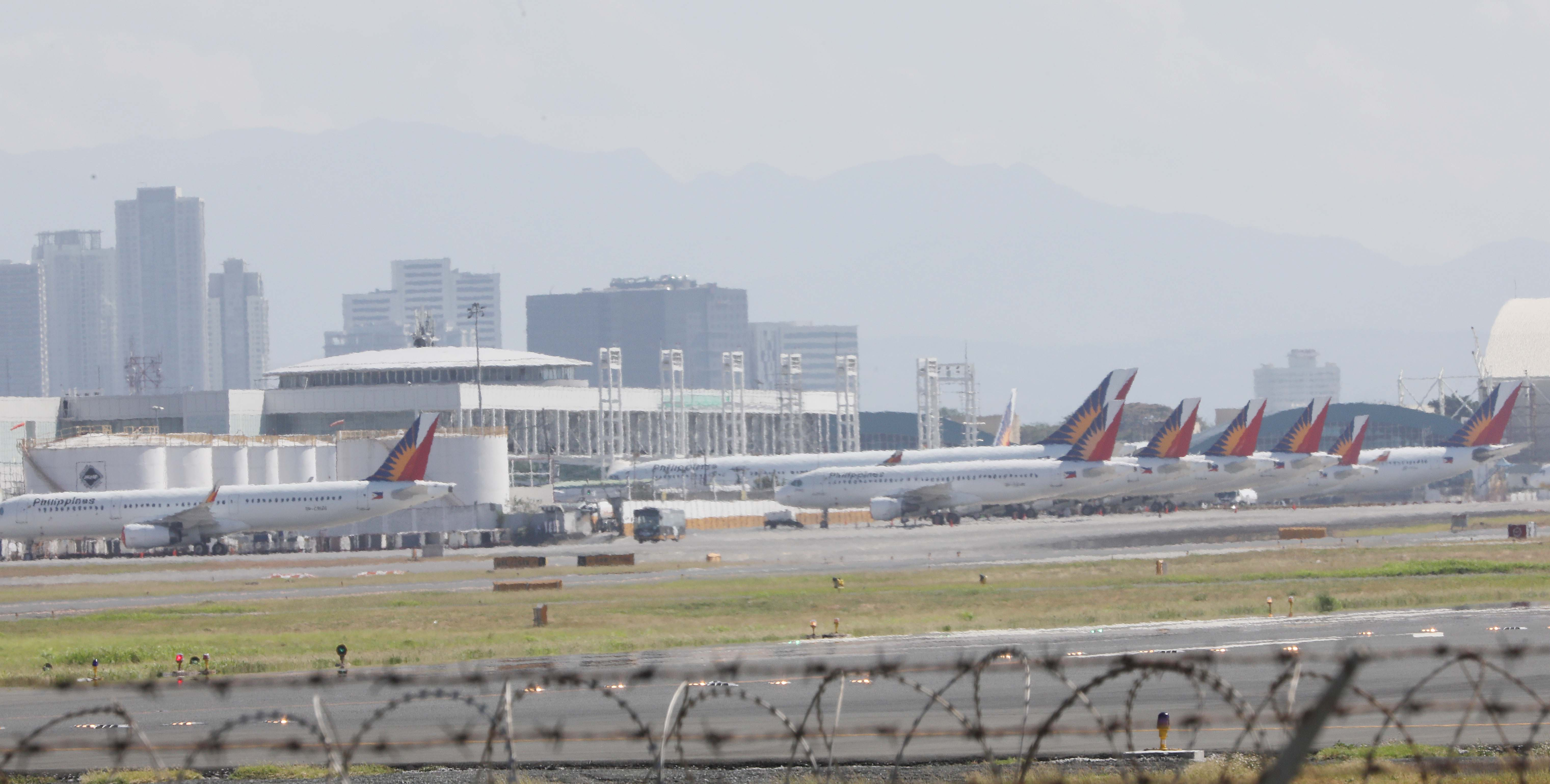 The Ninoy Aquino International Airport (NAIA) Terminals 1 and 2 in Pasay City was turned into parking lots for grounded Philippine Airlines (PAL) planes due to suspended operations of its international flights starting March 26 until April 14, 2020. The coronavirus disease 2019 (Covid-19) outbreak has pushed commercial planes to stop operations due to the implementation of enhanced community quarantine. (PNA photo by Avito C. Dalan)